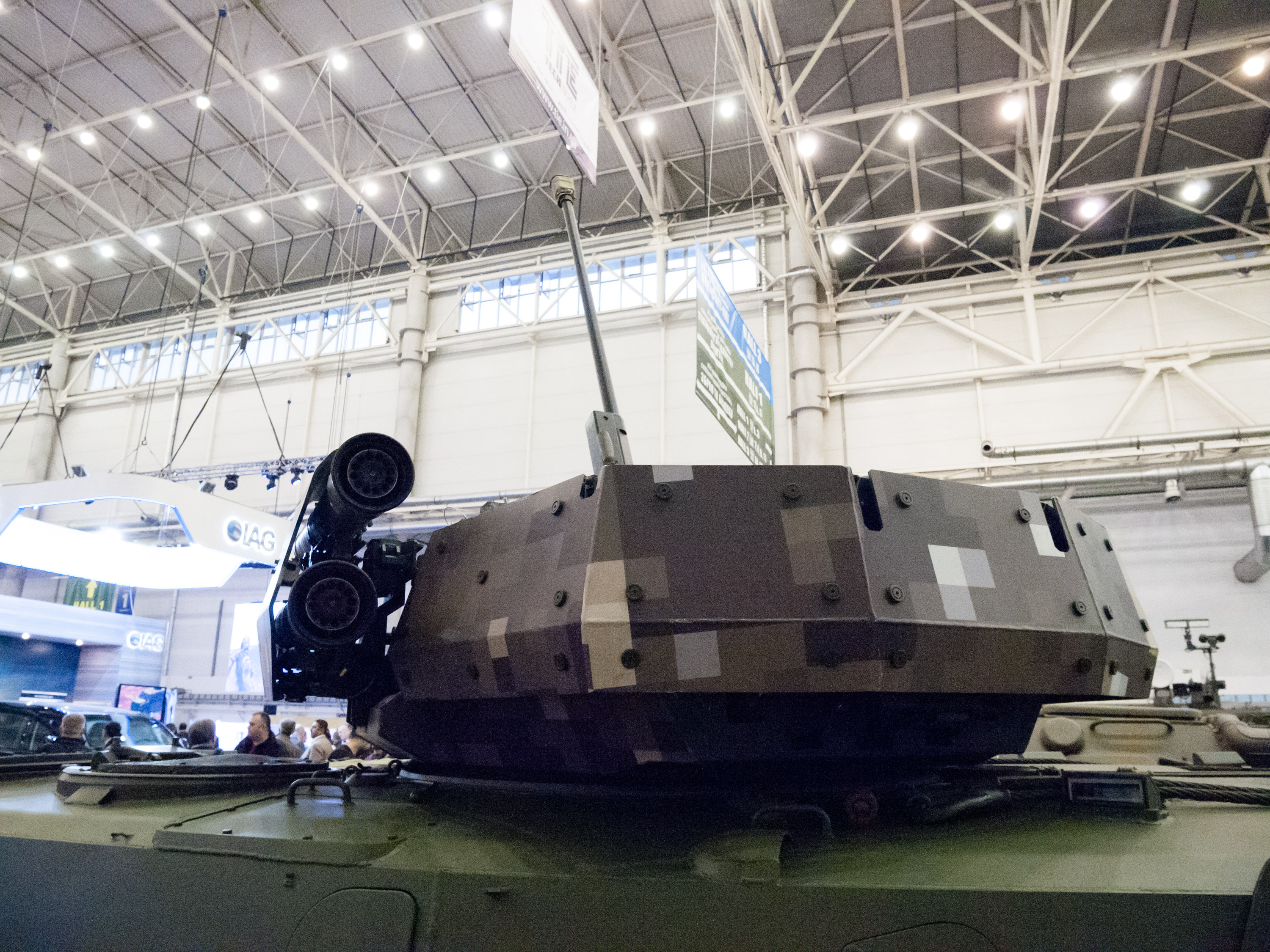 Turra 30 fighting module (Slovakia)